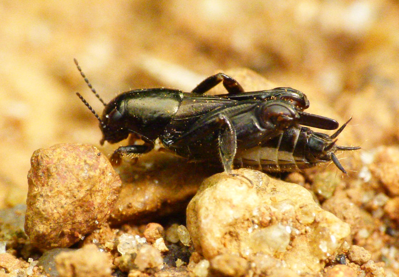 Tridactylidae, Orthoptera. Wayanad, India.